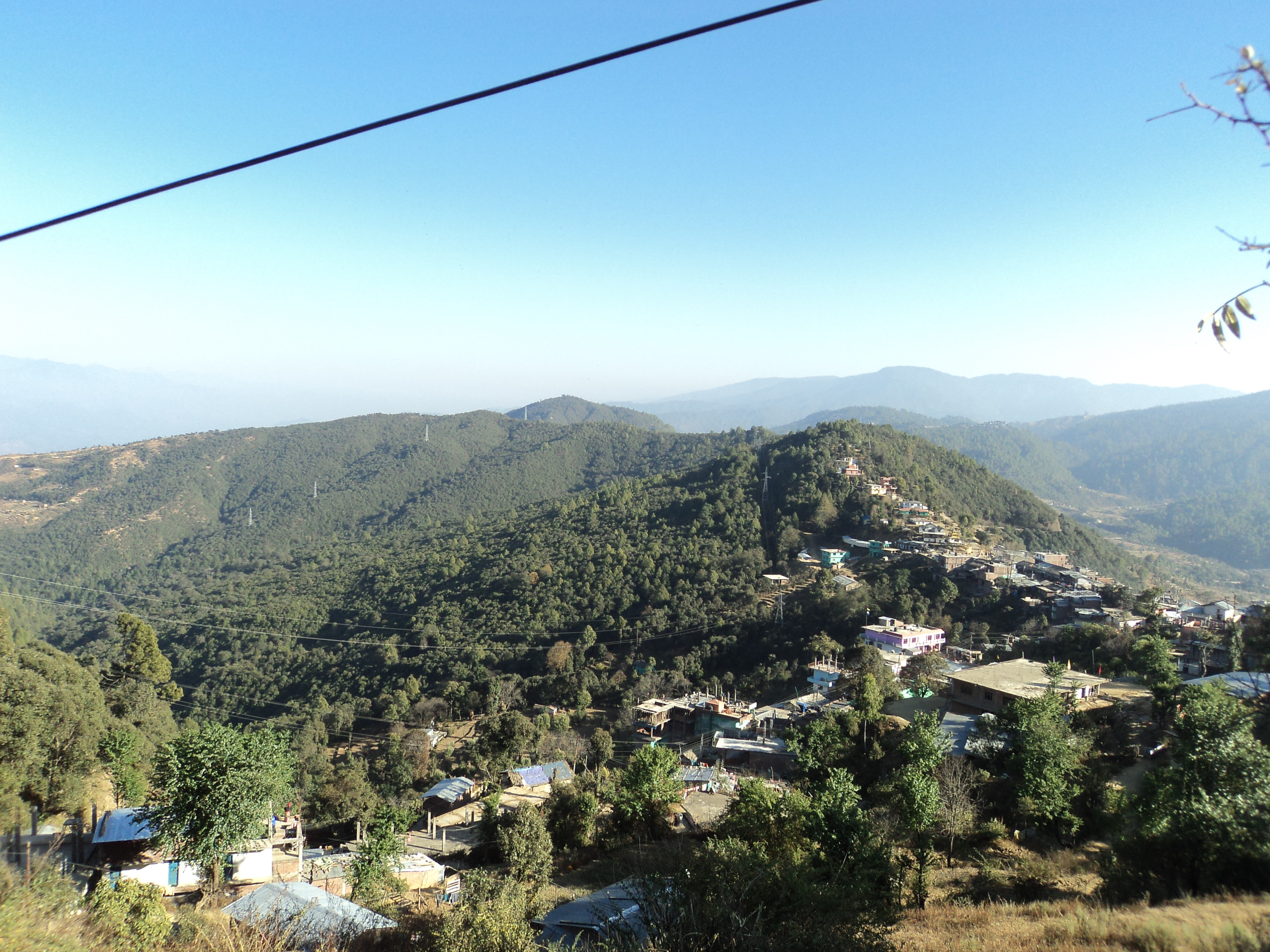 Amargadi Bajar, Photo taken from Khalanga, Dadeldhura District of Nepal